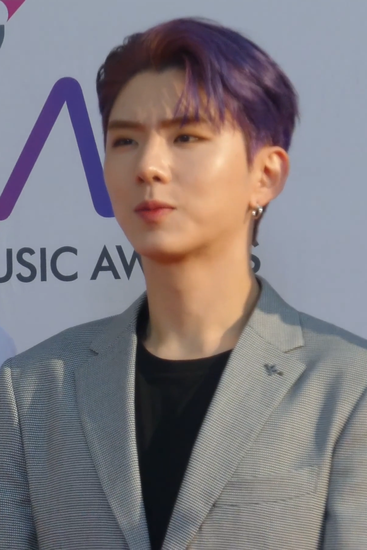 Monsta X Kihyun at the 2019 Fact Music Awards, 24 April 2019